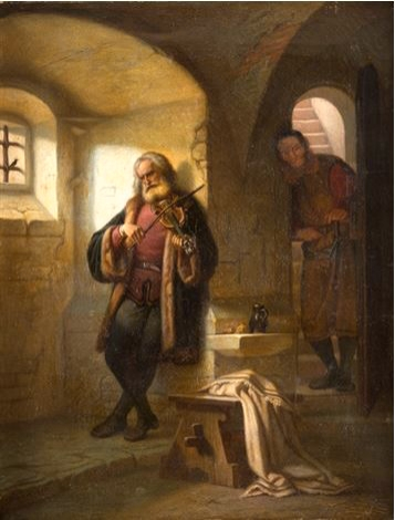 Dalibor